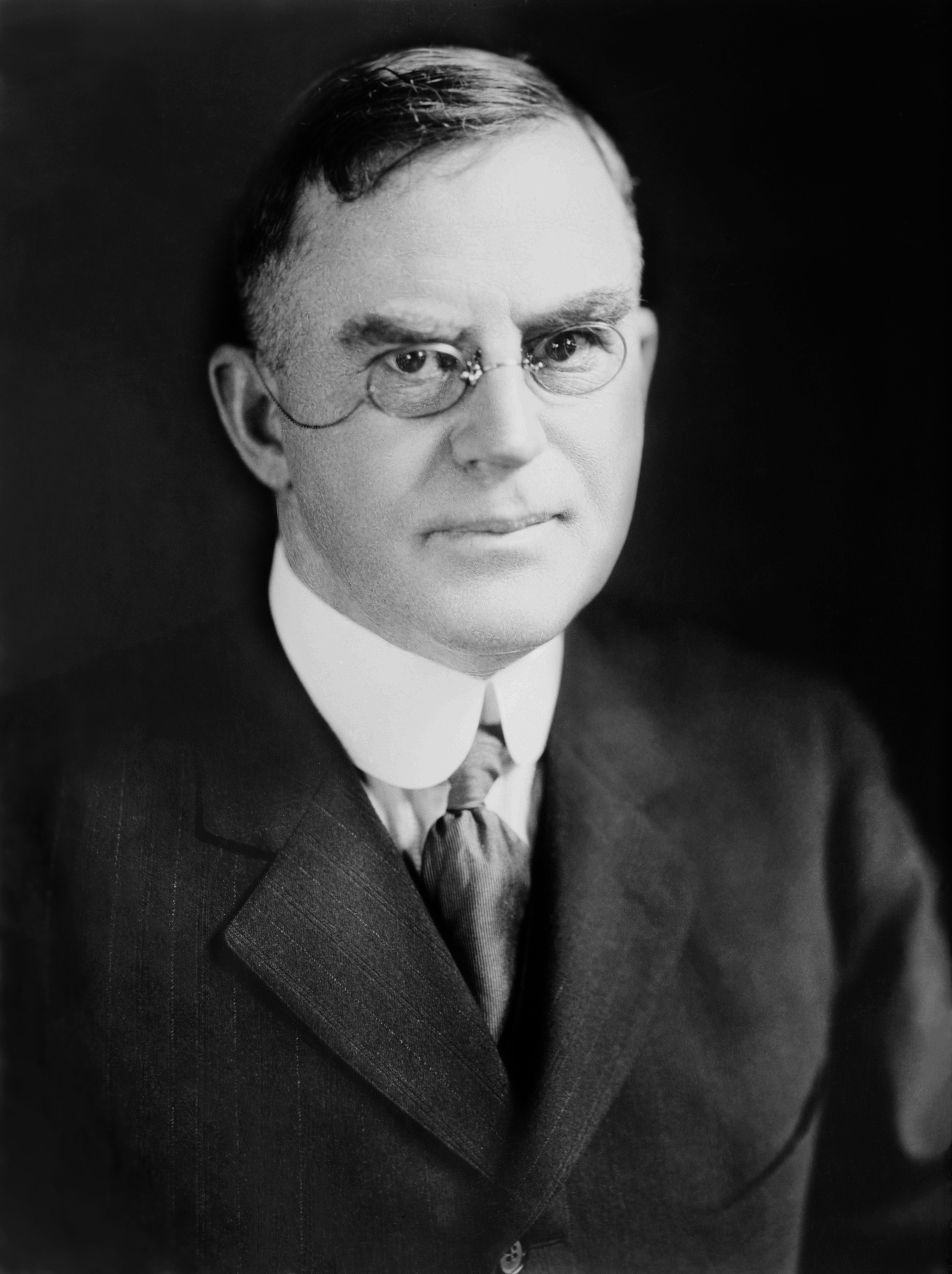 H.C. Wallace